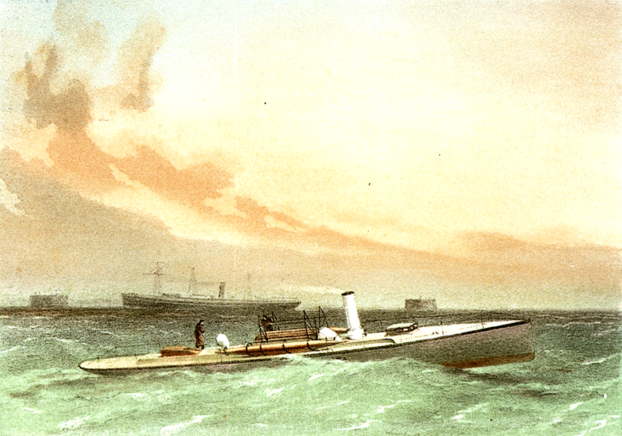 Torpedo boat, 2nd class and HMS Hecla Print